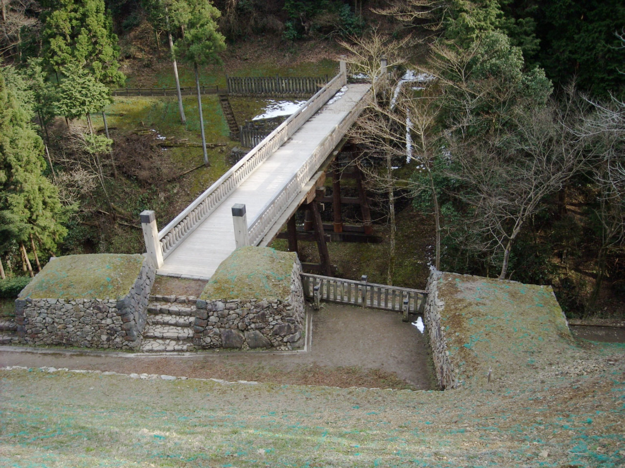 Bridge in castle Hachioji